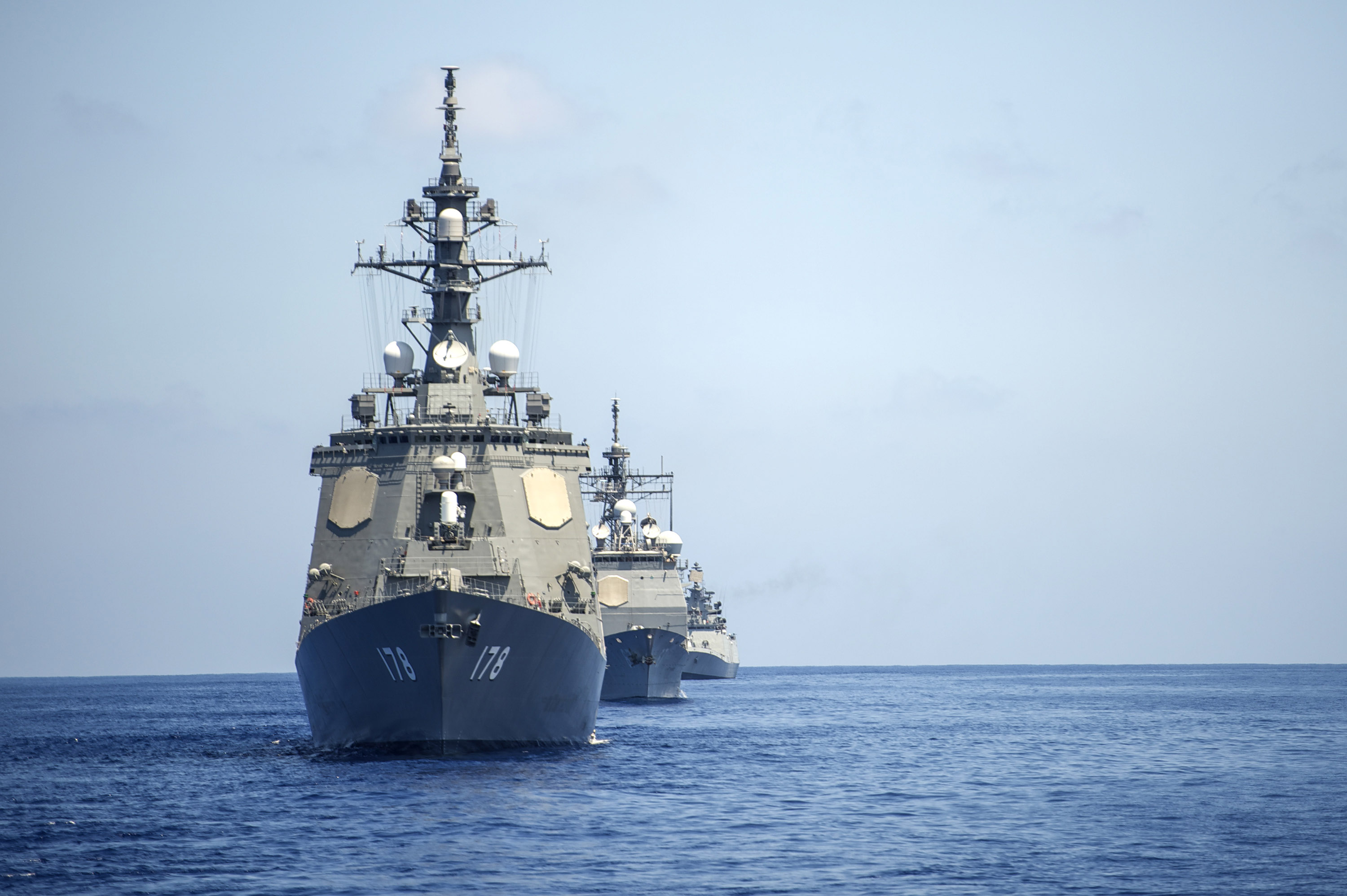 Ships of the Indian, Japanese and the U.S. Navies sail together during Exercise Malabar 2014.